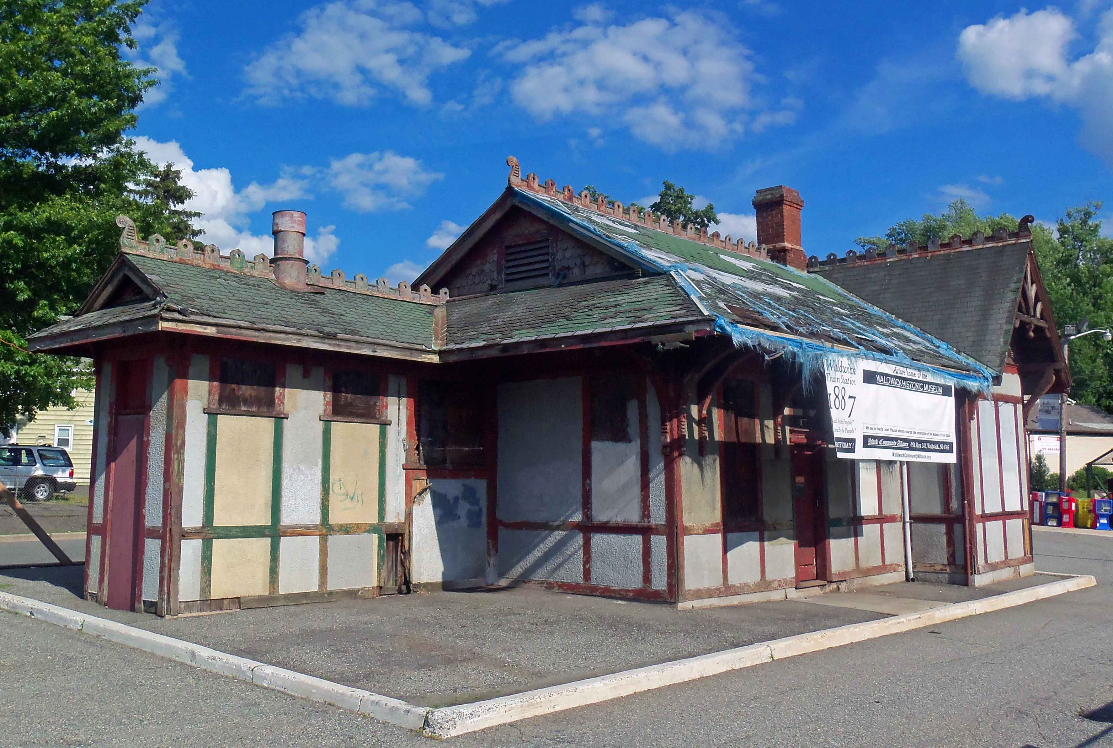 Former depot building at the NJ Transit station, Waldwick, NJ, USA